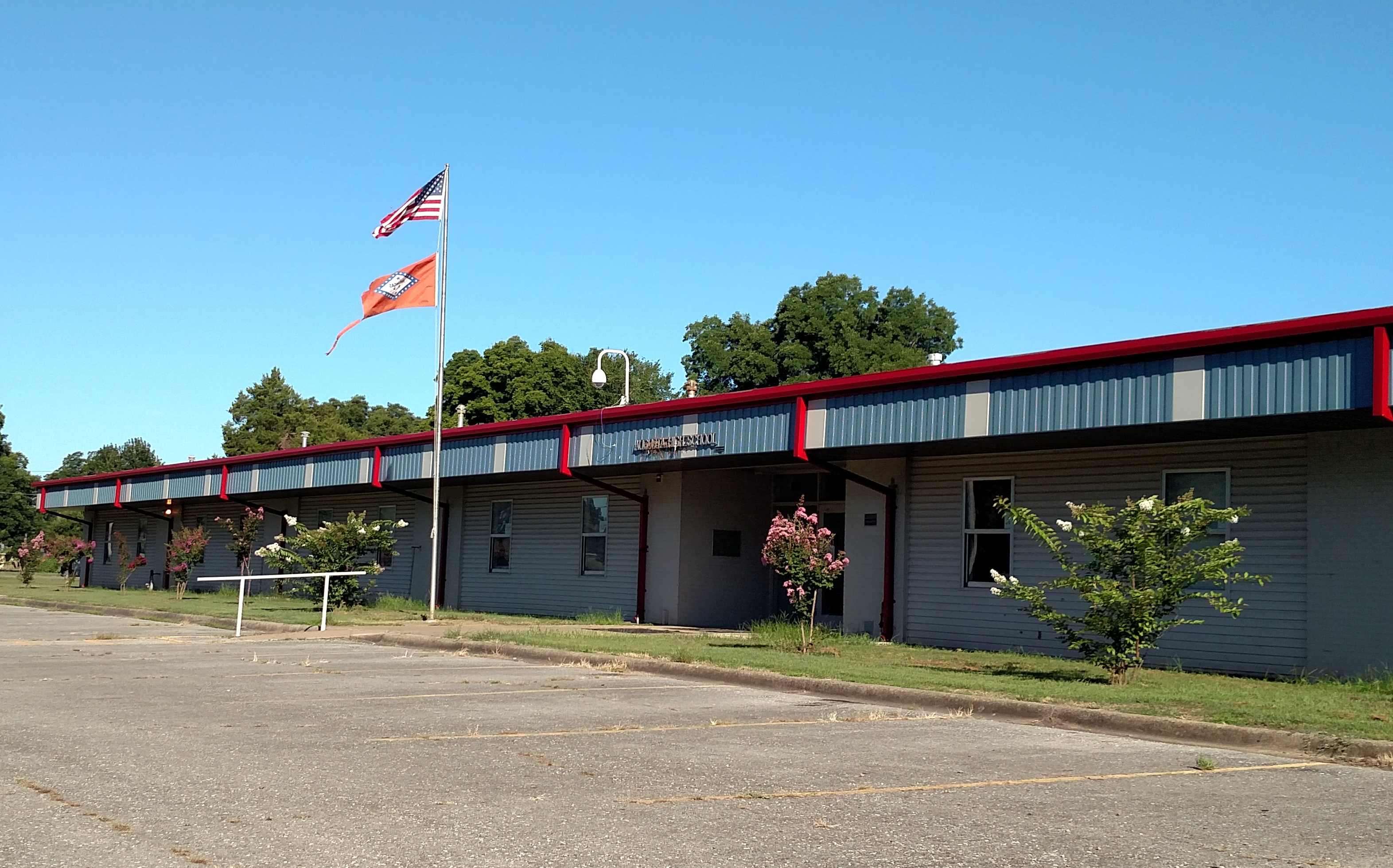 Augusta HS in Augusta, AR